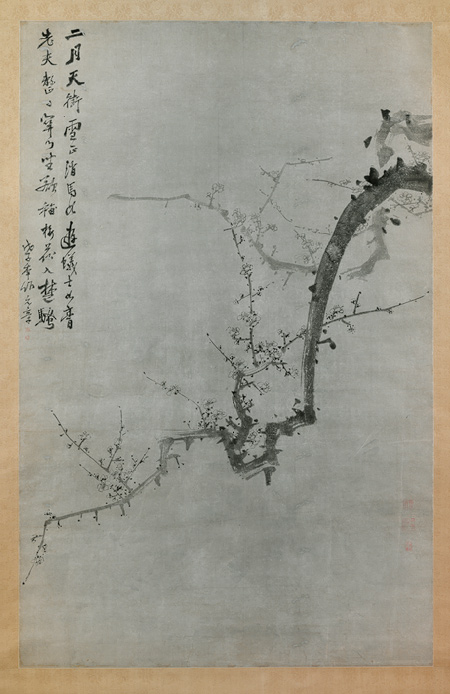 Plum Branch, Chosôn dynasty (1392–1910), 1888, Hanging scroll, ink on paper; 147.5 x 94.5 cm, Metropolitan Museum of Art